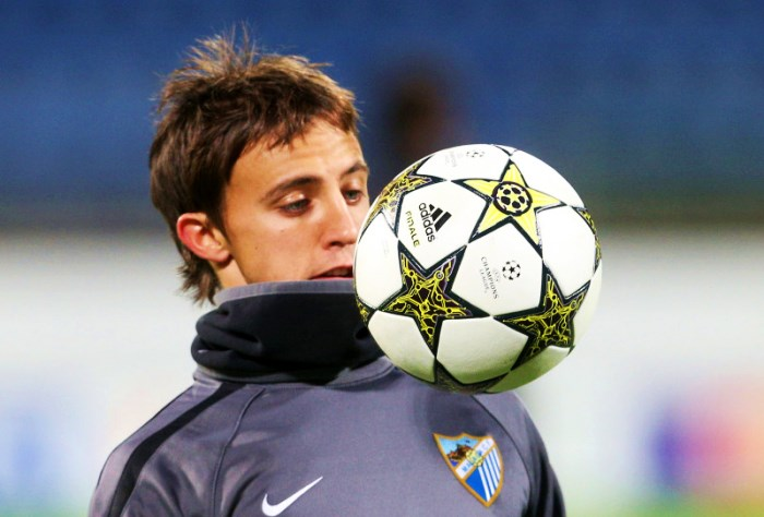 Diego Buonanotte 2012